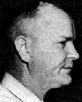 Euday Louis Bowman, famous author by 12th Street Rag